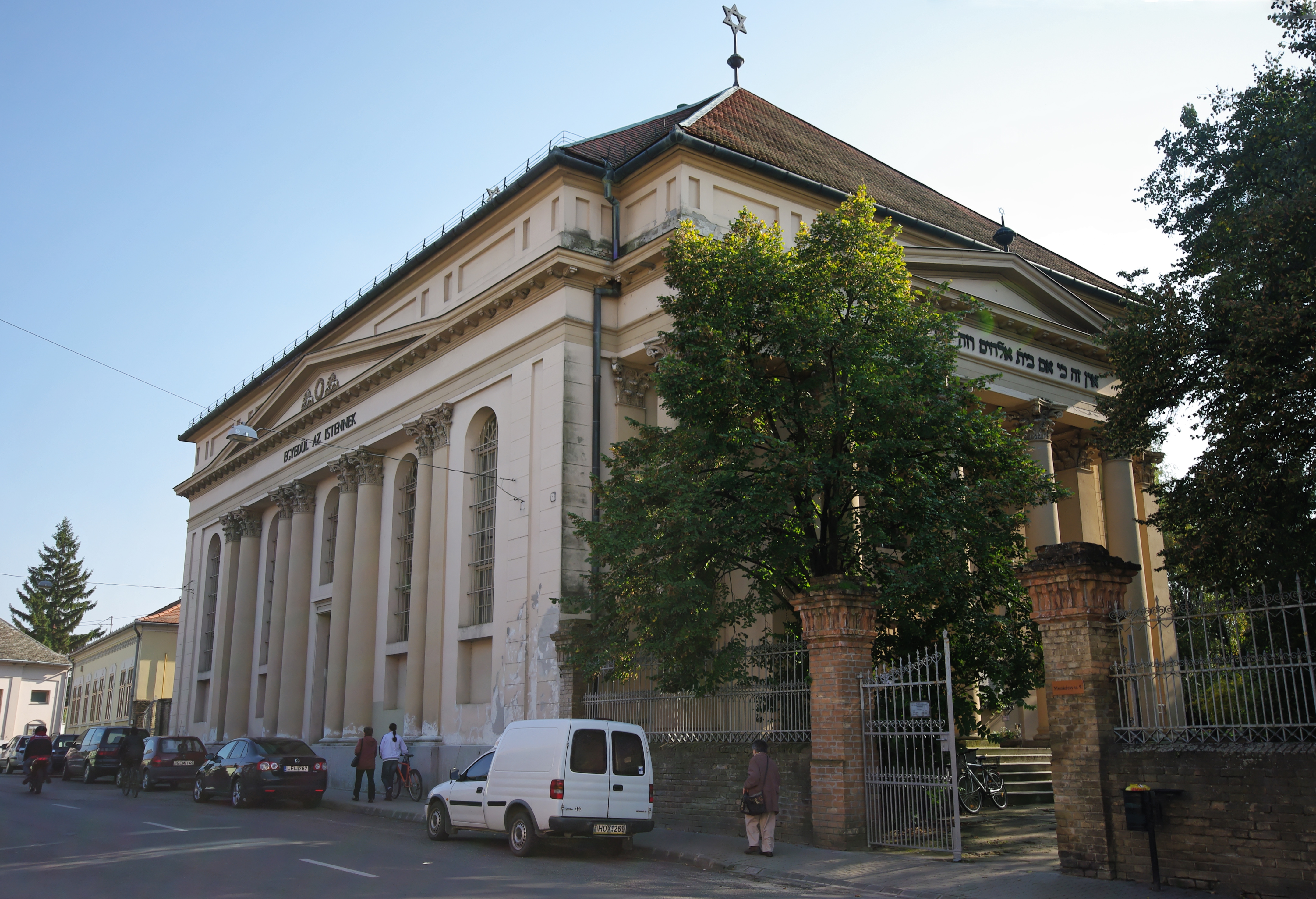 Synagogue of Baja, Hungary